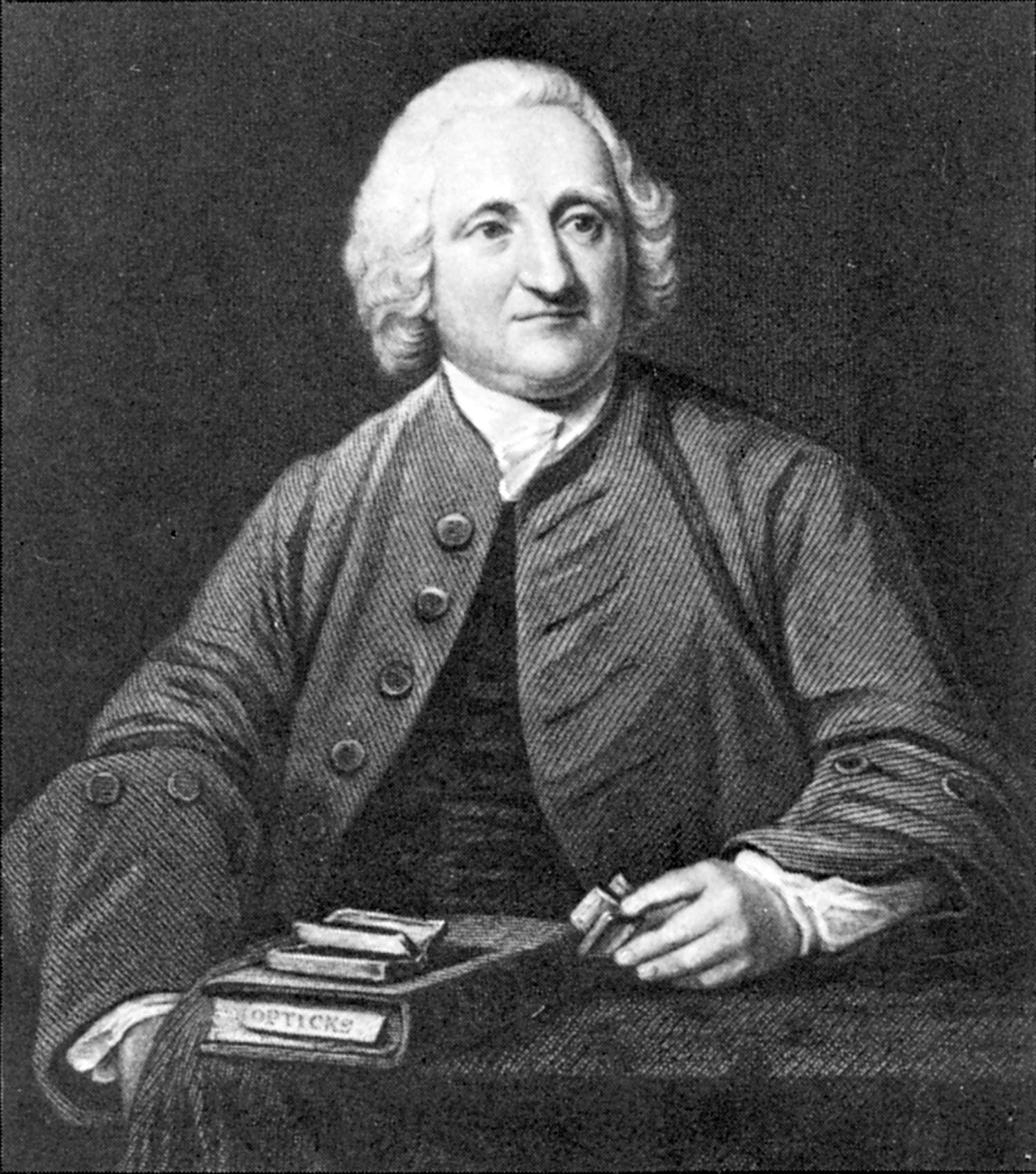 John Dollond